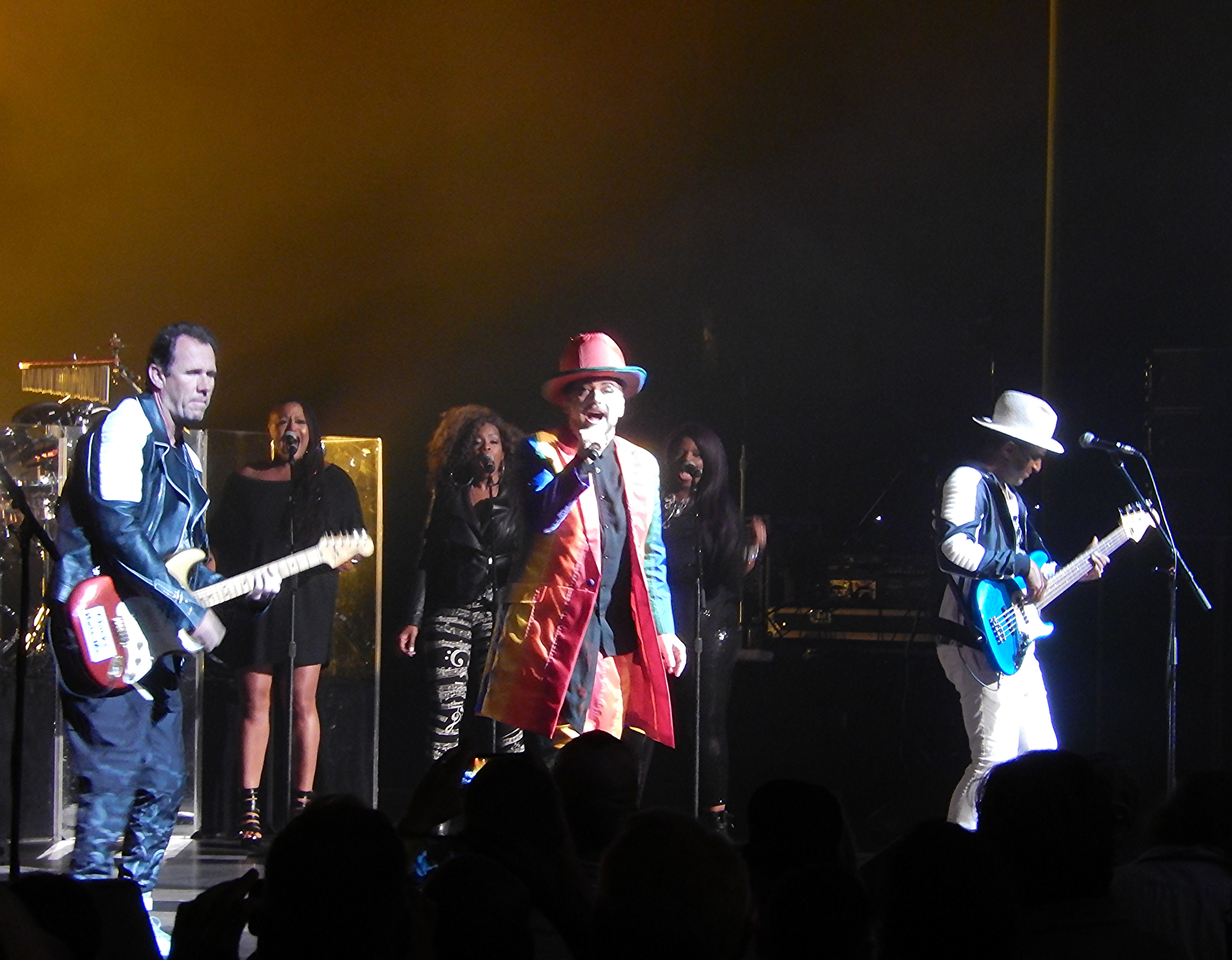 Culture Club live in Milwaukee County 23/7/16.